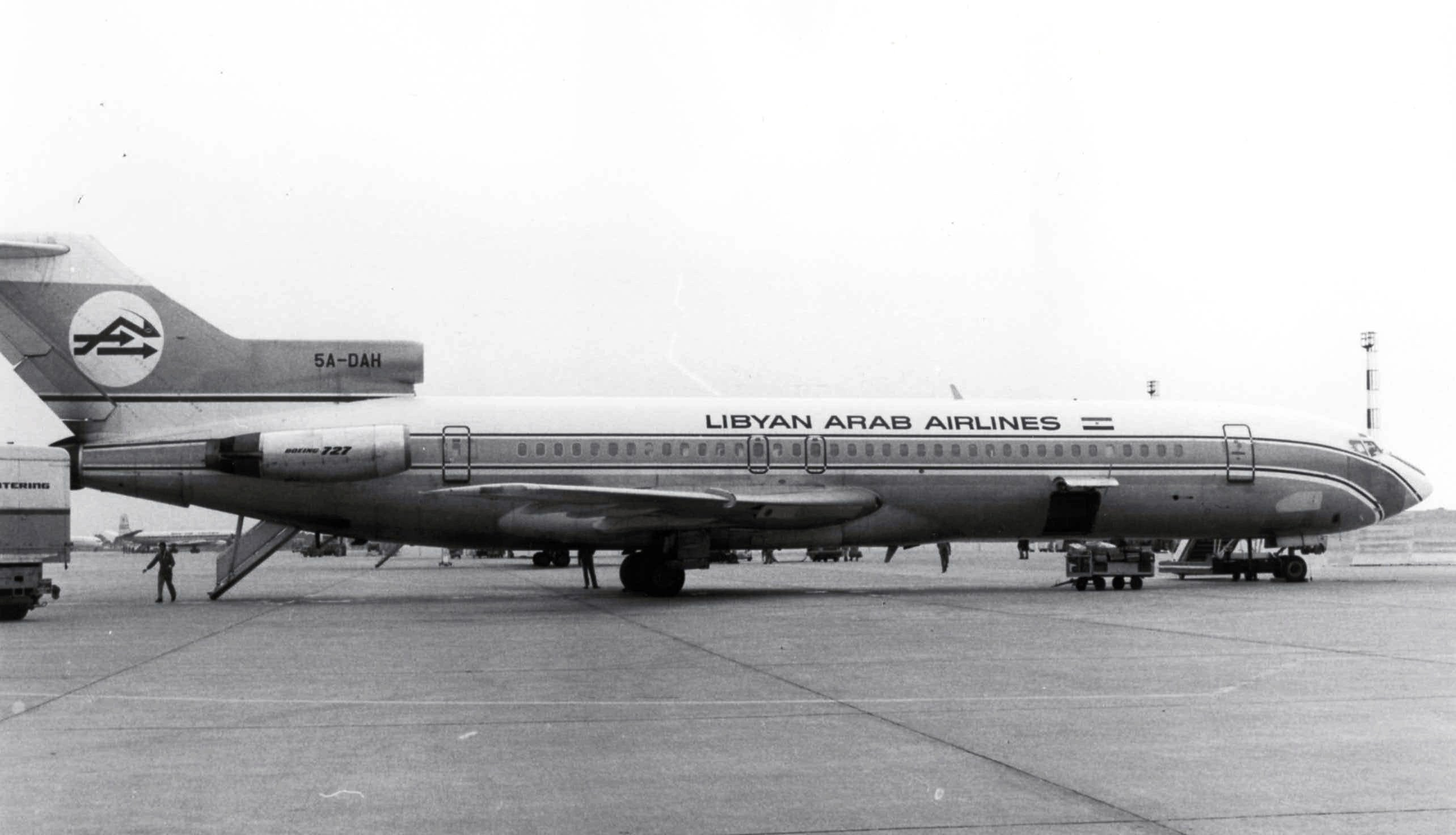 United Kingdom, London Heathrow Airport. Libyan Arab Airlines Boeing 727-224, 5A-DAH, c/n 20244/650, first flight on October 16, 1968, allocated to Continental Air Lines as N1782B but not taken up. Delivered to Libyan Arab Airlines on December 28, 1970 and registered 5A-DAH. On February 21, 1973 was destroyed on flight after having intercepted by two Israeli Air Force F-4E Phantom II over the Sinai Desert, due to flight deviation, from the planned route from Benghazi to Cairo which beacon was not functioning properly. The aircraft was hit by tracers at the right wingtips and fire erupted. The crew tried to make a belly landing in the desert near Ismaïlia causing 108 fatalities on 113 occupants.